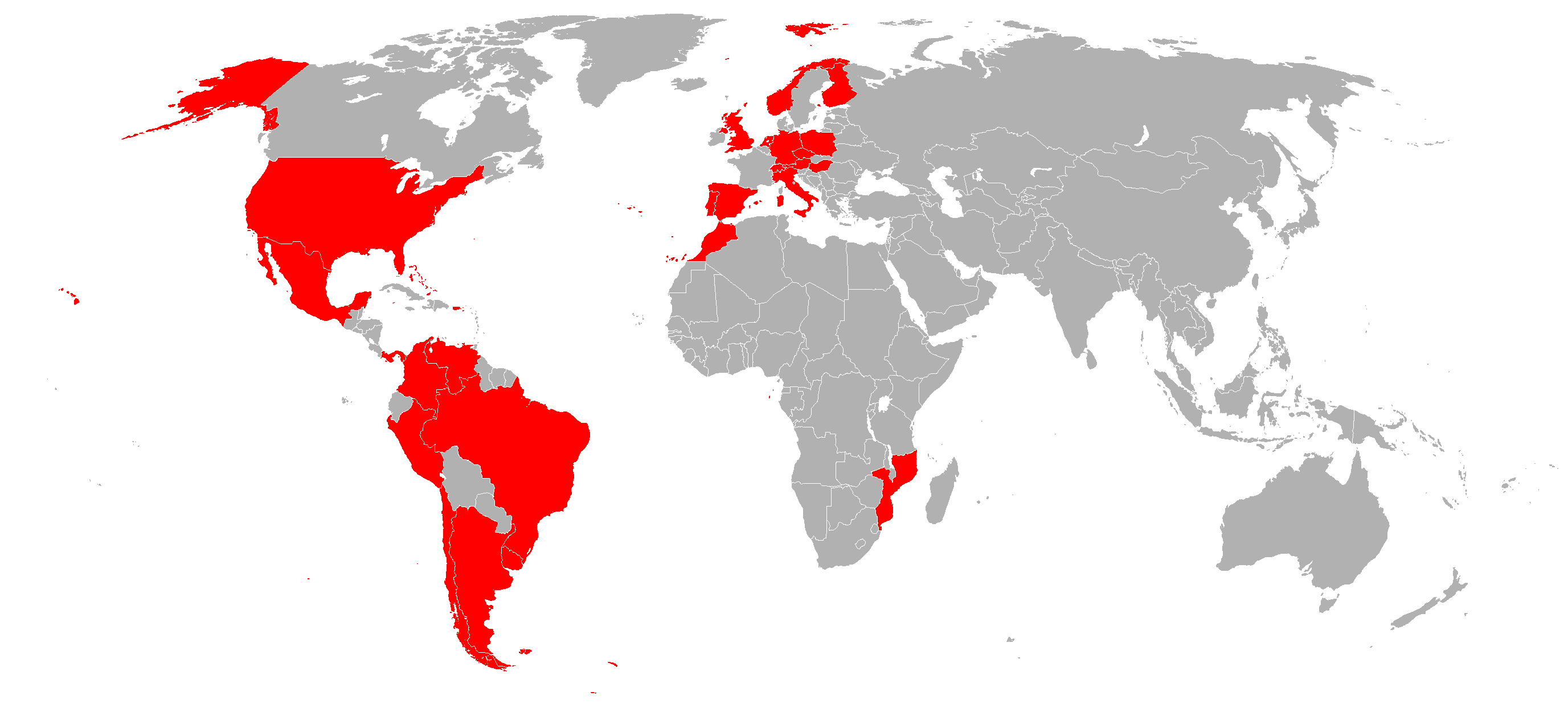 Grupo Santander in the world.